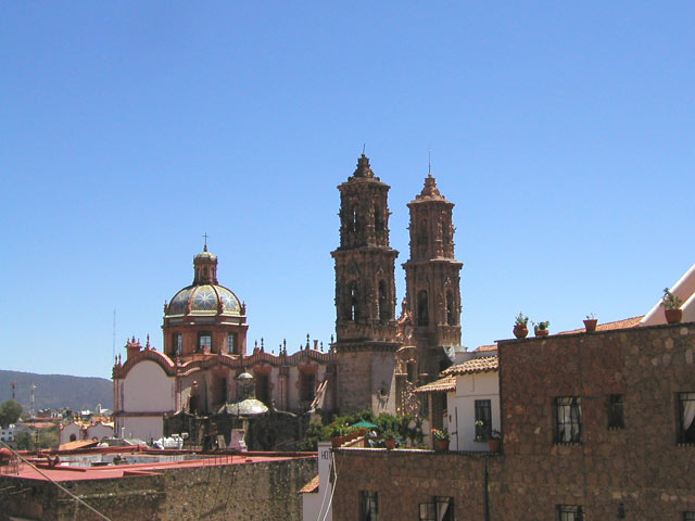 Taxco de Alarcón, Sanctuary of St Prisca.